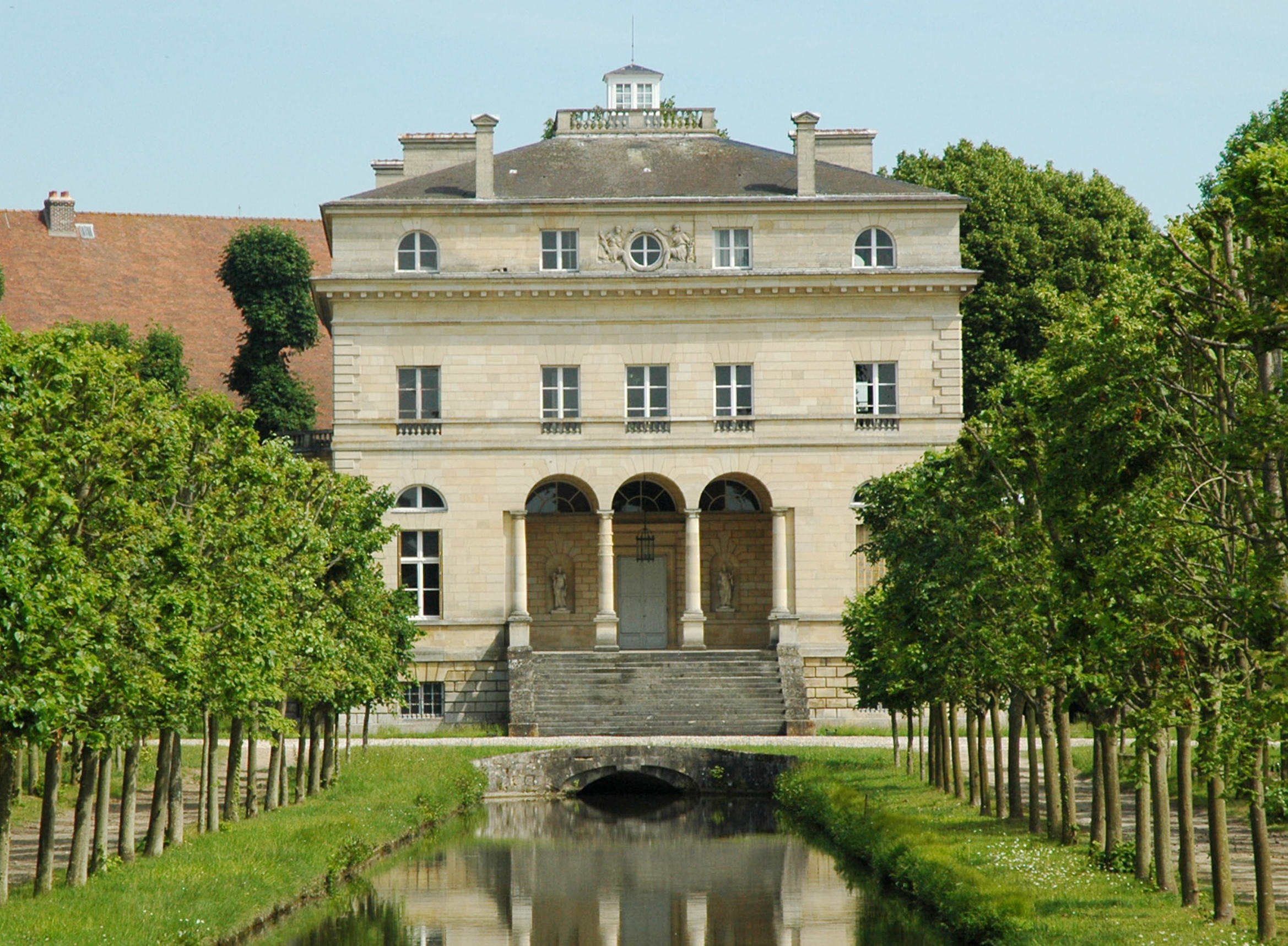 Palais abbatial de Royaumont